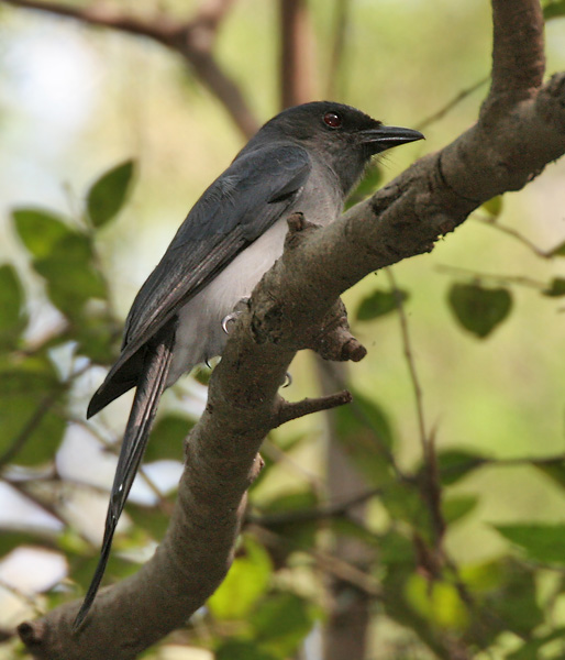 White-bellied Drongo Dicrurus caerulescens at Sindhrot in Vadodara District of Gujarat, India.